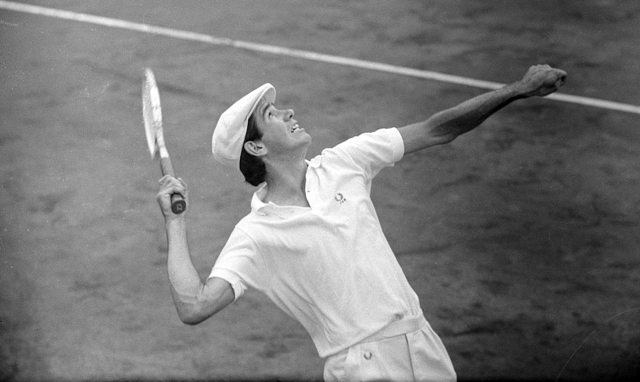 South African tennis player Frew McMillan at the Dutch Championships in Hilversum